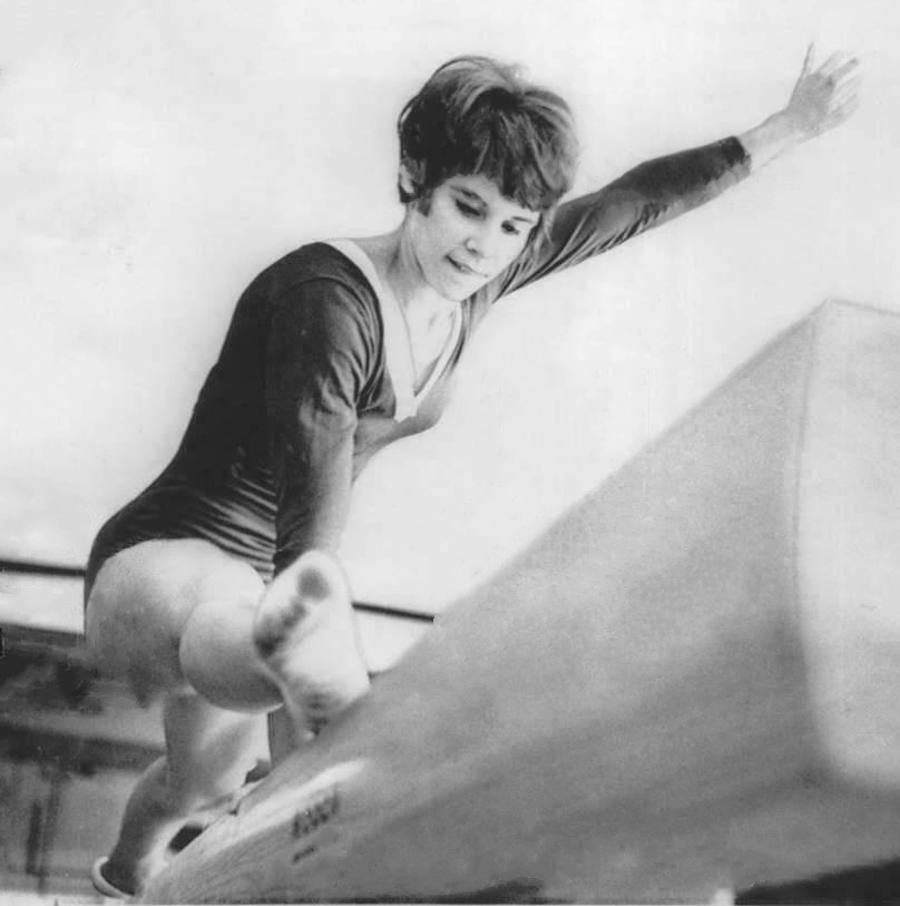 1968 Press Photo Joyce Tanac prepares for balance beam trials for Olympics.